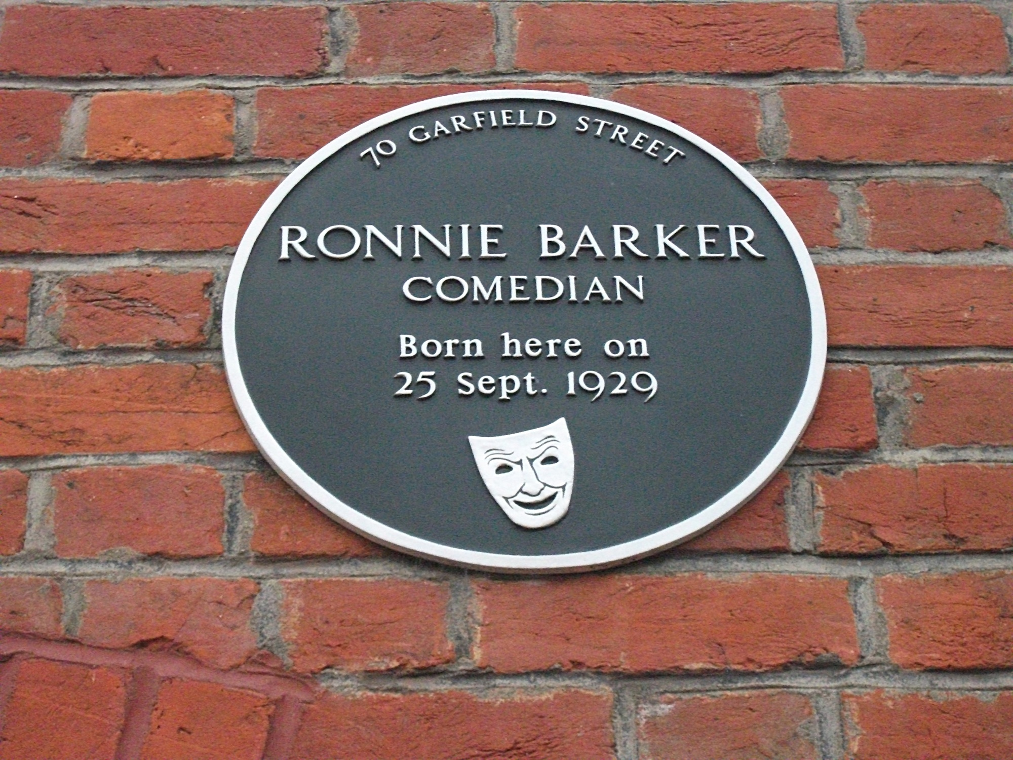 Plaque marking comedian Ronnie Barker's birthplace at 70 Garfield Street, Bedford, Bedfordshire.